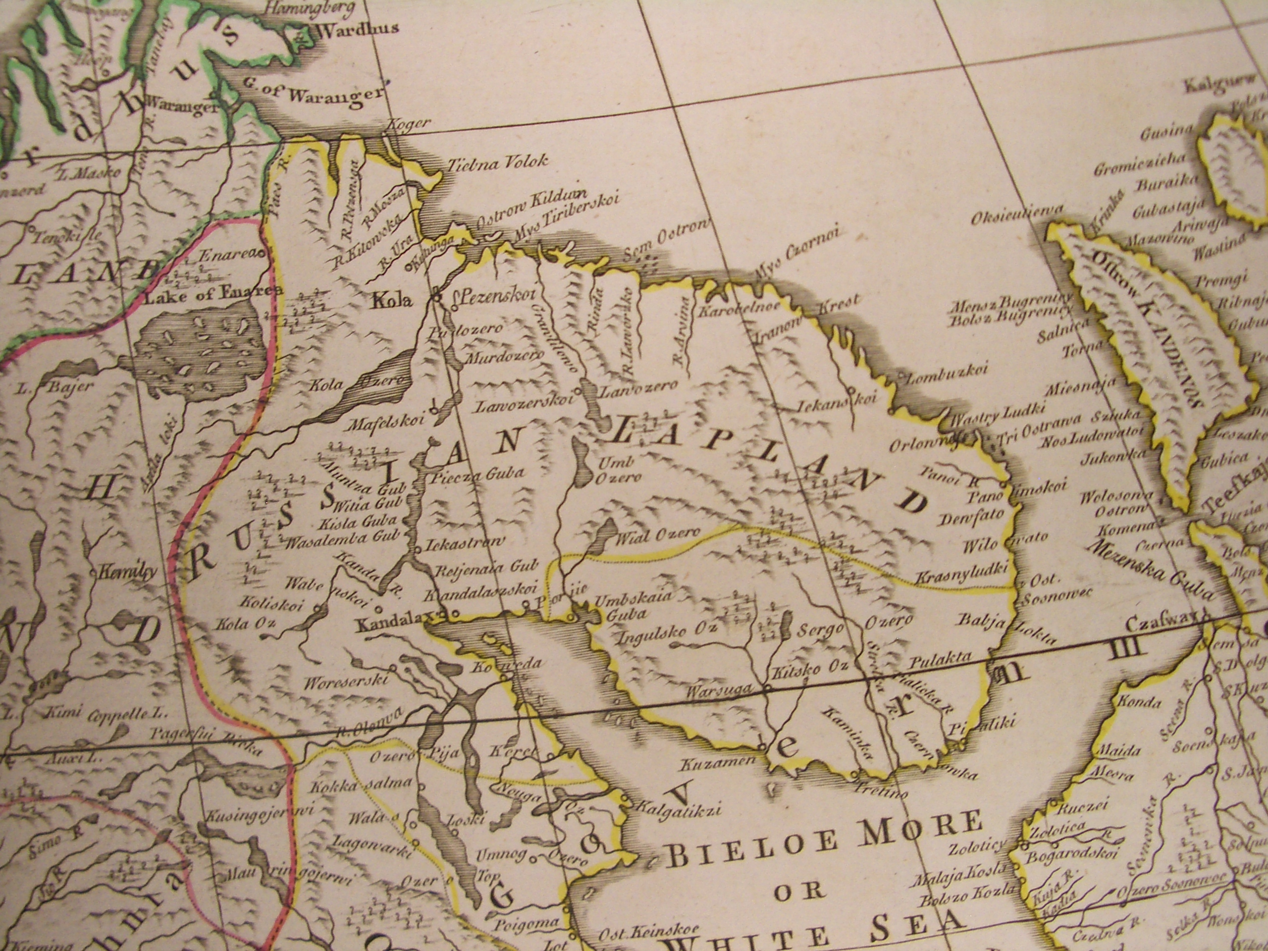 A fragment of "A new and accurate map of Europe. Divided into its Empires, Kingdoms, States and Republics, &c. Drawn by the Sieur Robert de Vaugondy, Geographer to the French King, and to the Duke of Lorrain and Bar, Member of the Royal Academy of Sciences and Belles Lettres at Nancy, with many additions and improvements by Thomas Kitchin Geographer. London. Printed for & sold by Robert Sayer, Map and Printseller, No. 53 Fleet Street. Published as the Act directs. 1st August, 1772." This is page 3of Thomas Kithen's "Atlas describing the Whole Universe"